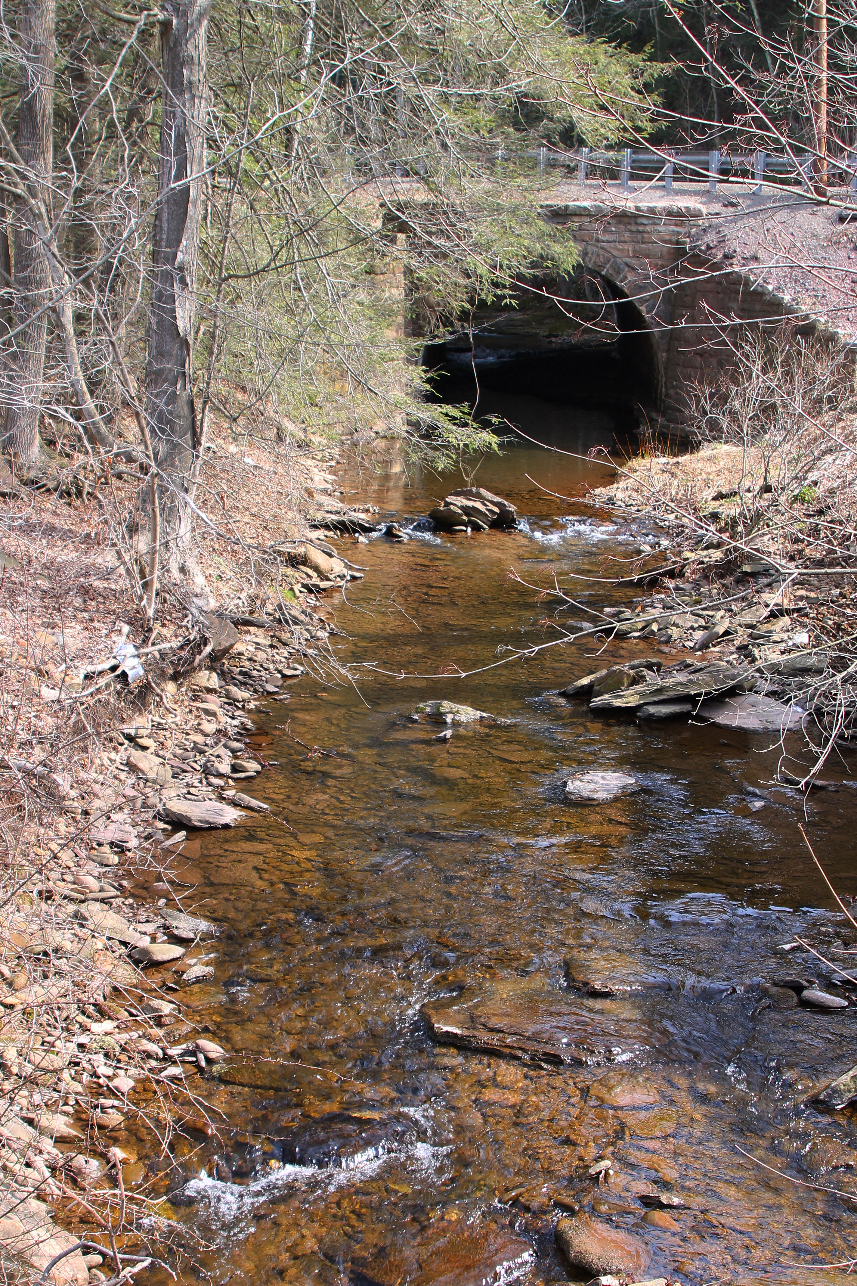 West Branch Little Muncy Creek, a tributary of Little Muncy Creek, looking upstream in its lower reaches. Pennsylvania Route 42 is in the background.